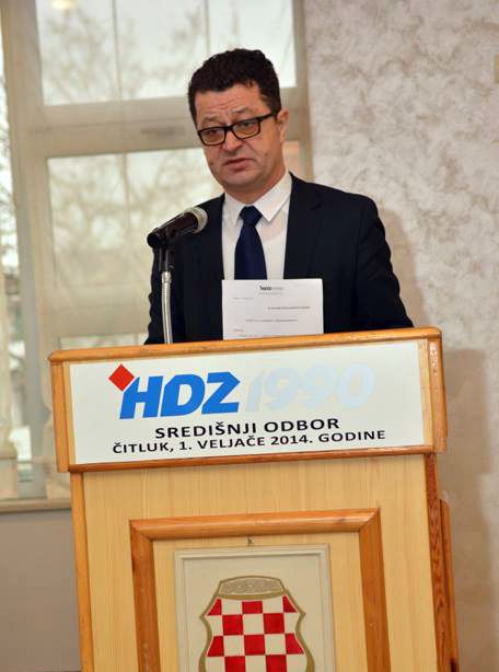 President of the Croatian Democratic Union 1990 Martin Raguž in Čitluk.